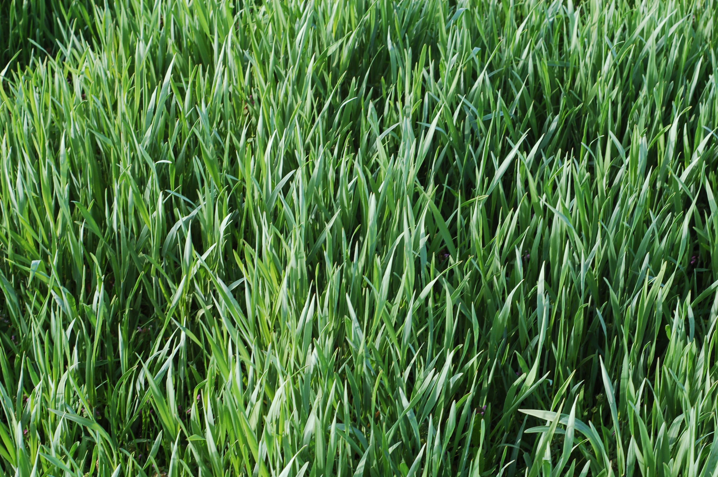 Secale cereale, seeded in the beginning of October 2010, in spring